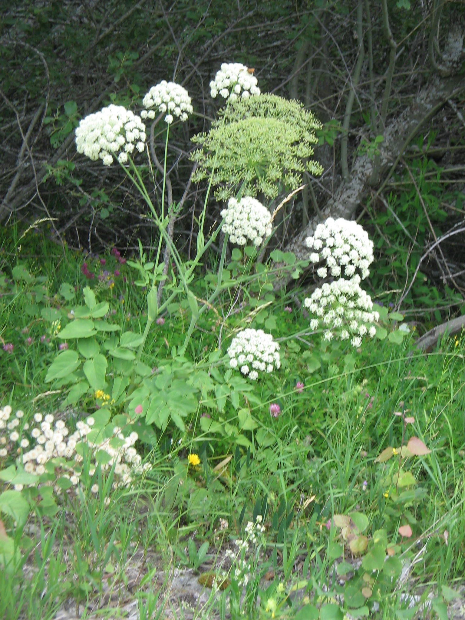 Laserpitium latifolium